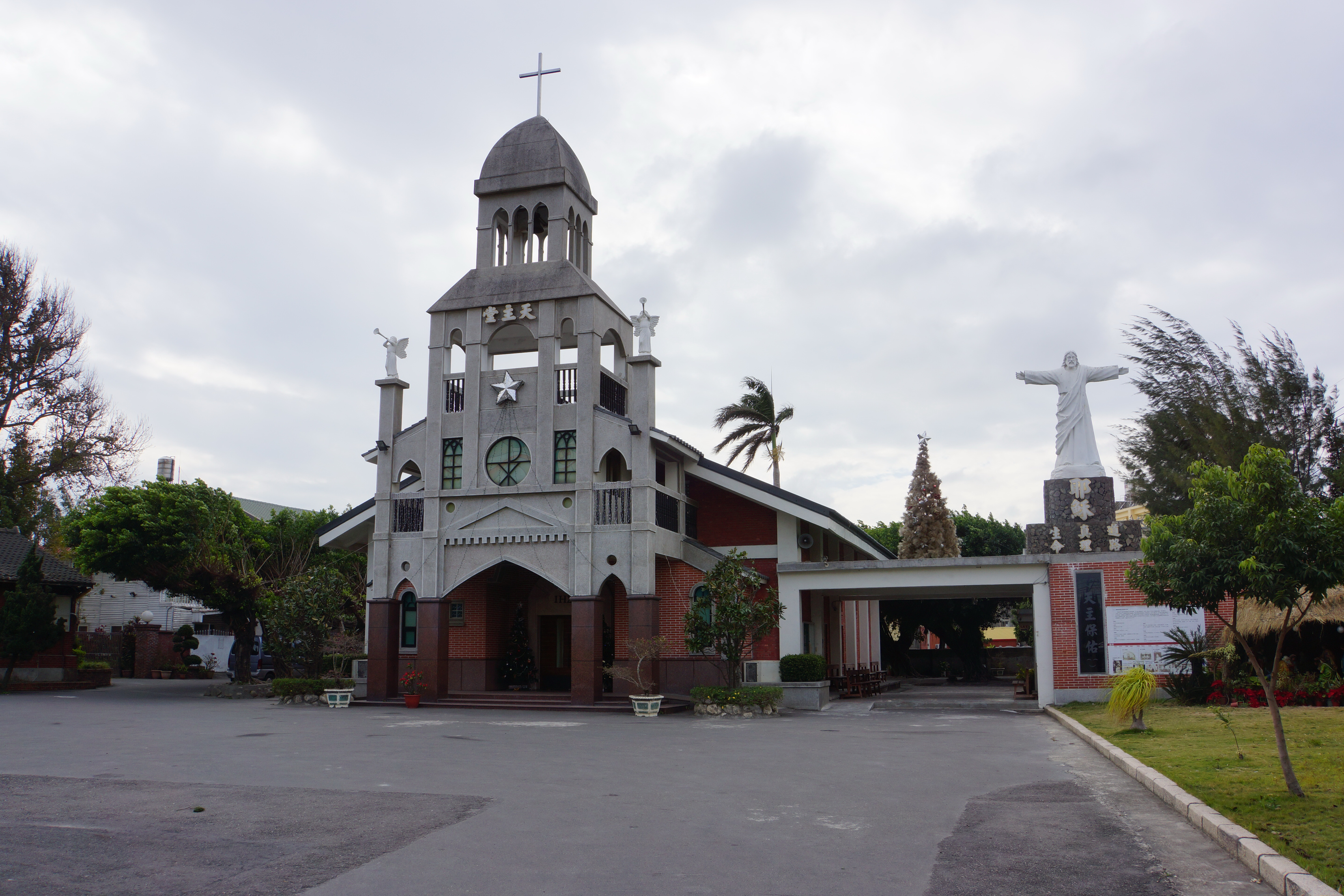 羅厝天主堂 Luocuo Catholic Church